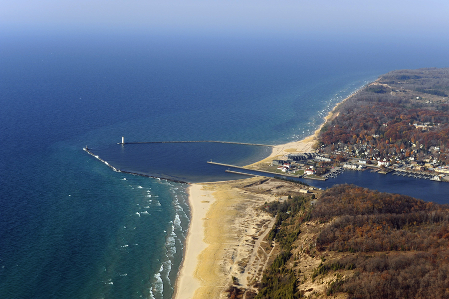 Frankfor MI Harbor, aerial view NRHP#97000973